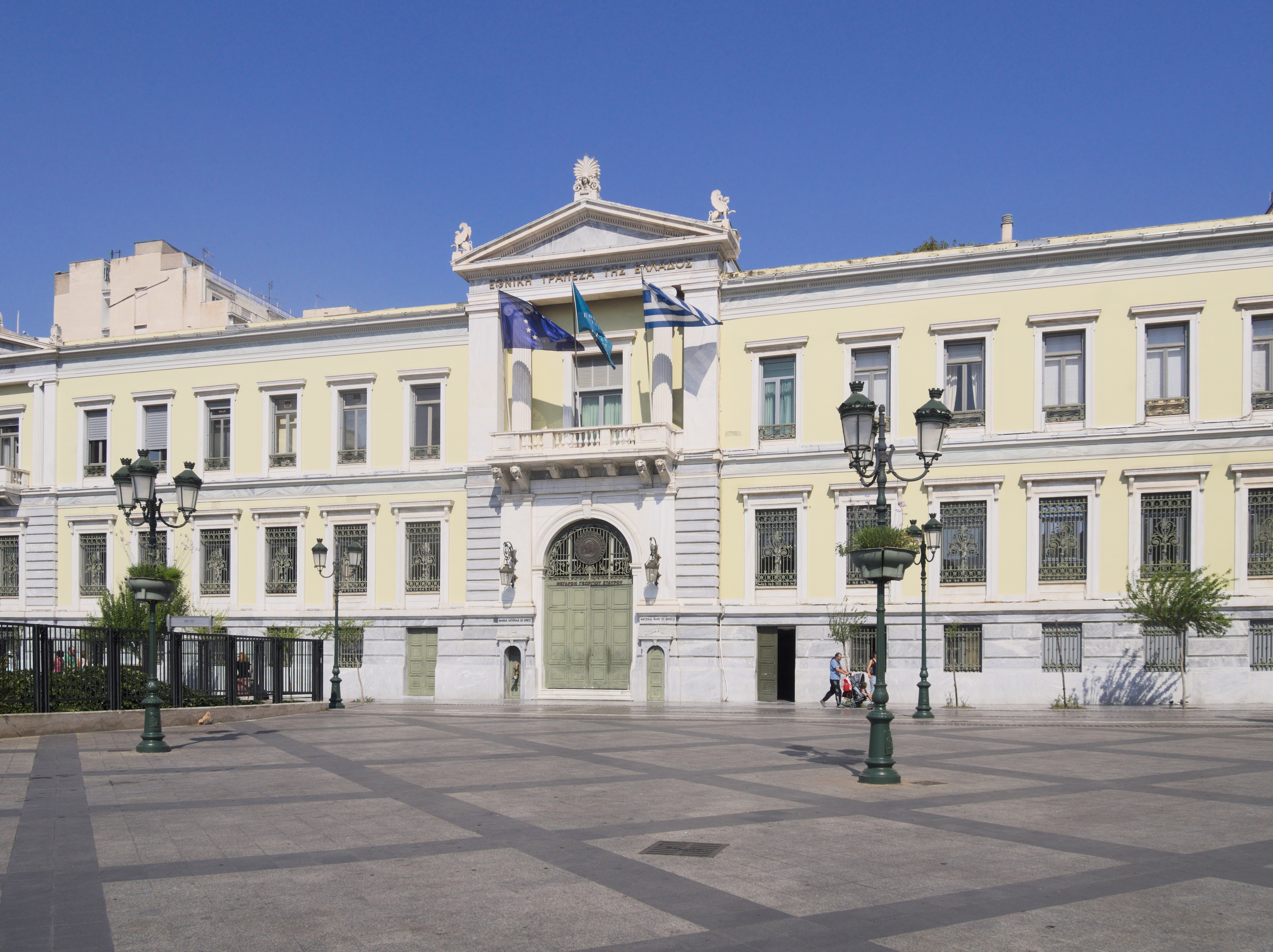 The headquarters of the National Bank of Greece, Athen, view from Kotzia square.